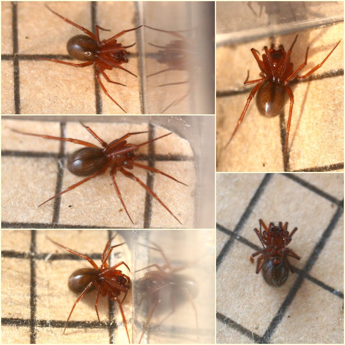 Saaristoa abnormis (Linyphiidae). Female. Length c.3.9mm. 1st leg metatarsi with trichobthria c.45% along length. No trichobothria on 4th leg metatarsi. Tibial spines 2-2-2-2. Epigyne large (approx same length as book lungs) and distinctive. On ground on ride through woods, Bricket Wood Common, Hertfordshire, England, 13th June 2012.